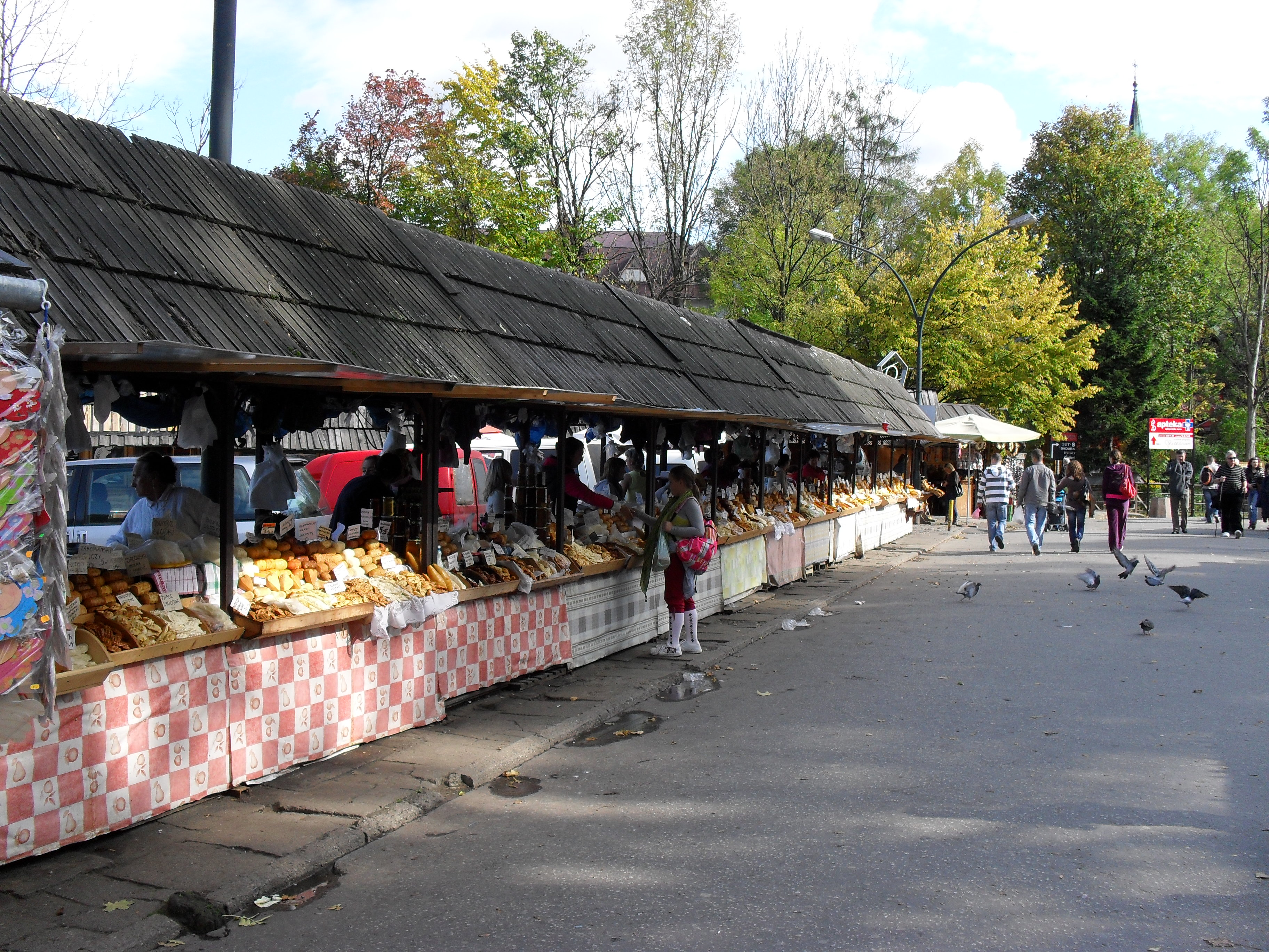 The cheese market at Zakopane in Poland, selling the local Oscypek sheep milk cheese.